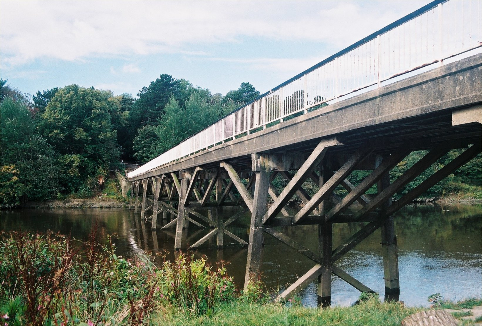 The Old Tram Bridge across the Ribble in Preston, Lancashire, England. This is a 1960s concrete replica of a wooden trestle bridge that once carried the Lancaster Canal Tramroad across the river.